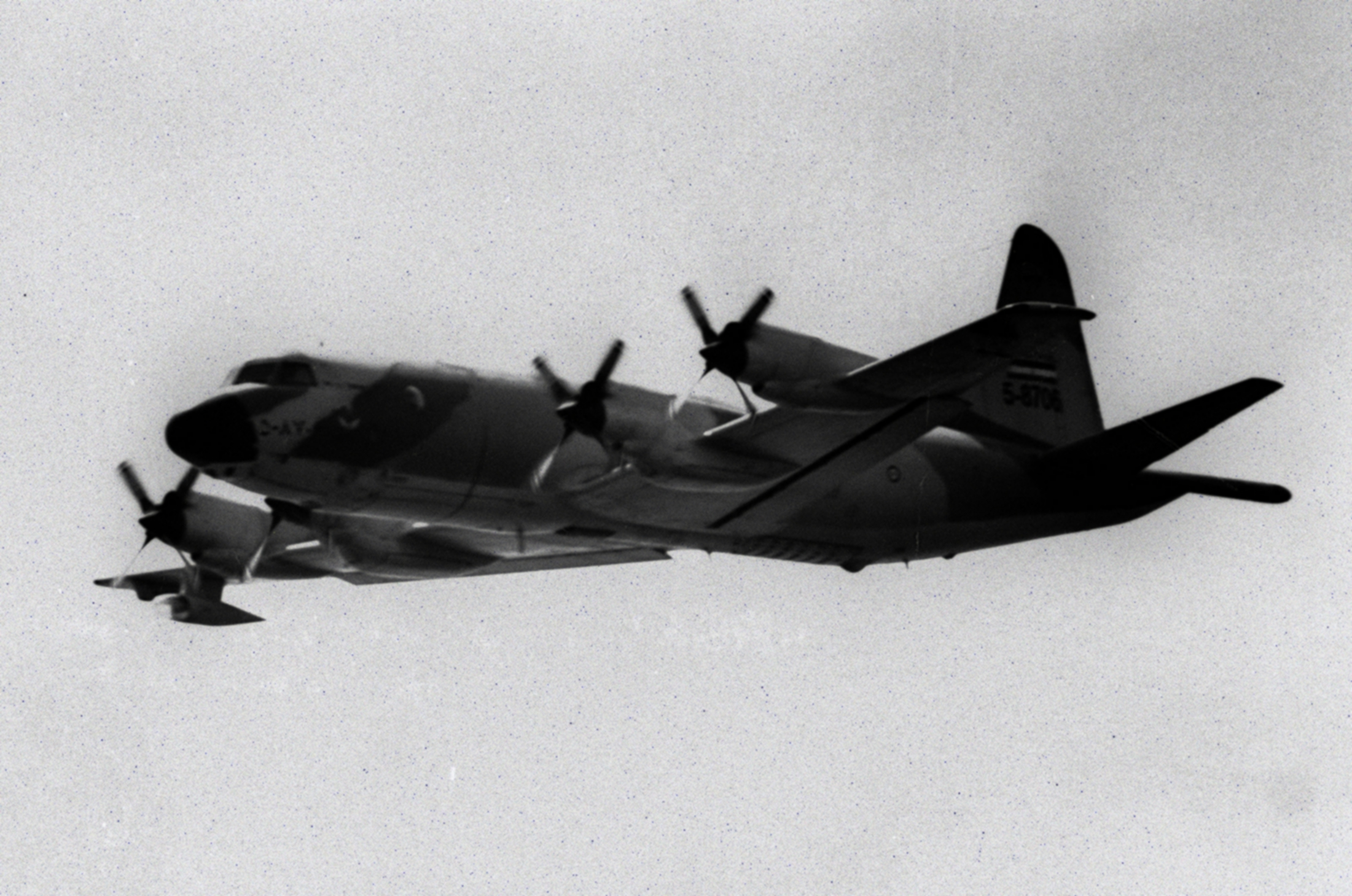 An Iranian Air Force Lockheed P-3F Orion maritime surveillance aircraft in flight over the Strait of Hormuz on 1 August 1994.